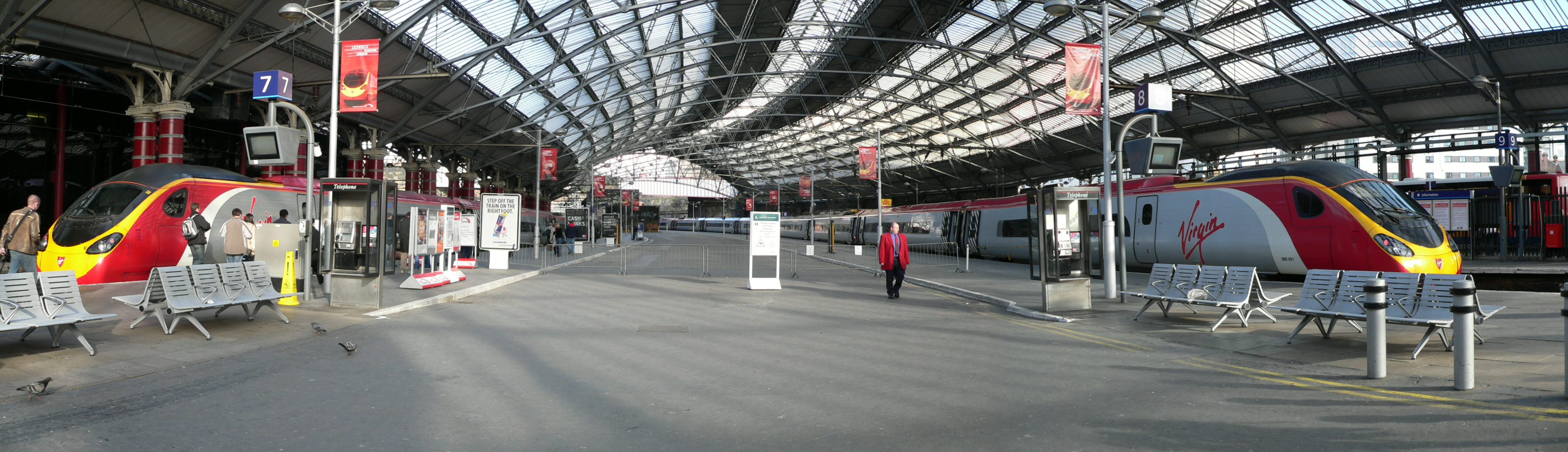 A merged view of the space between platforms 7 and 8 at Liverpool Lime Street railway station is sufficiently wide that it gives the impression of having previously been at least two more platforms and possibly one or more non-platform tracks as well. Two Virgin West Coast Class 390 EMUs are visible in this photograph, both between express services from and to London Euston. 390048 is on the left at platform 7 and will be the next to depart; 390051 is on the right at platform 8.